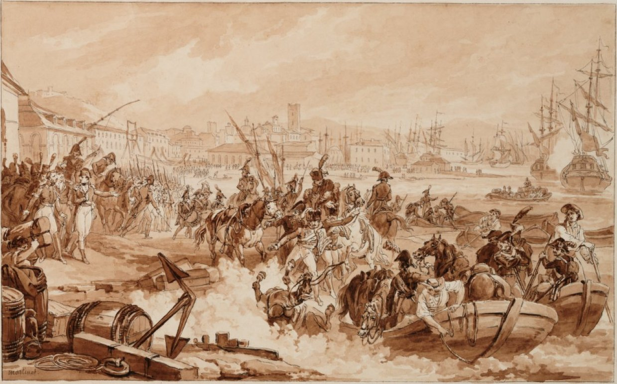 Boarding of the French army in Toulon to Egypt. Left: Bonaparte and his generals. 1798.